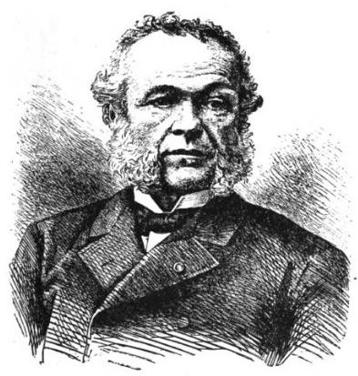 Picture of Charles-Adolph Wurtz, the chemist